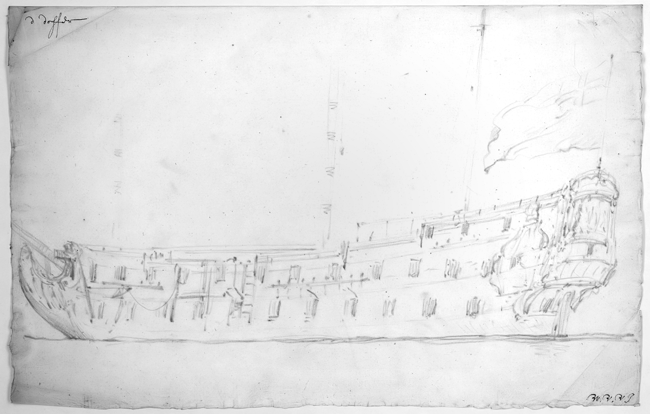 ‘Dover’, 48-gun fourth-rate, built 1654, rebuilt 1695 292 x 455 mm ca 1675